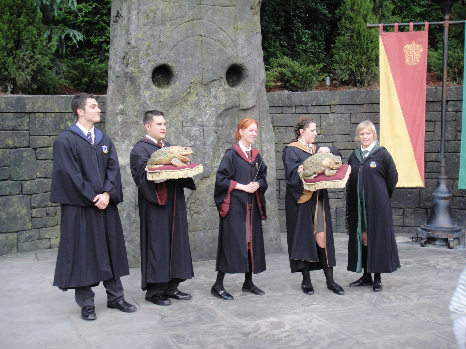 Wizarding World of Harry Potter - Hogwarts Frog Choir